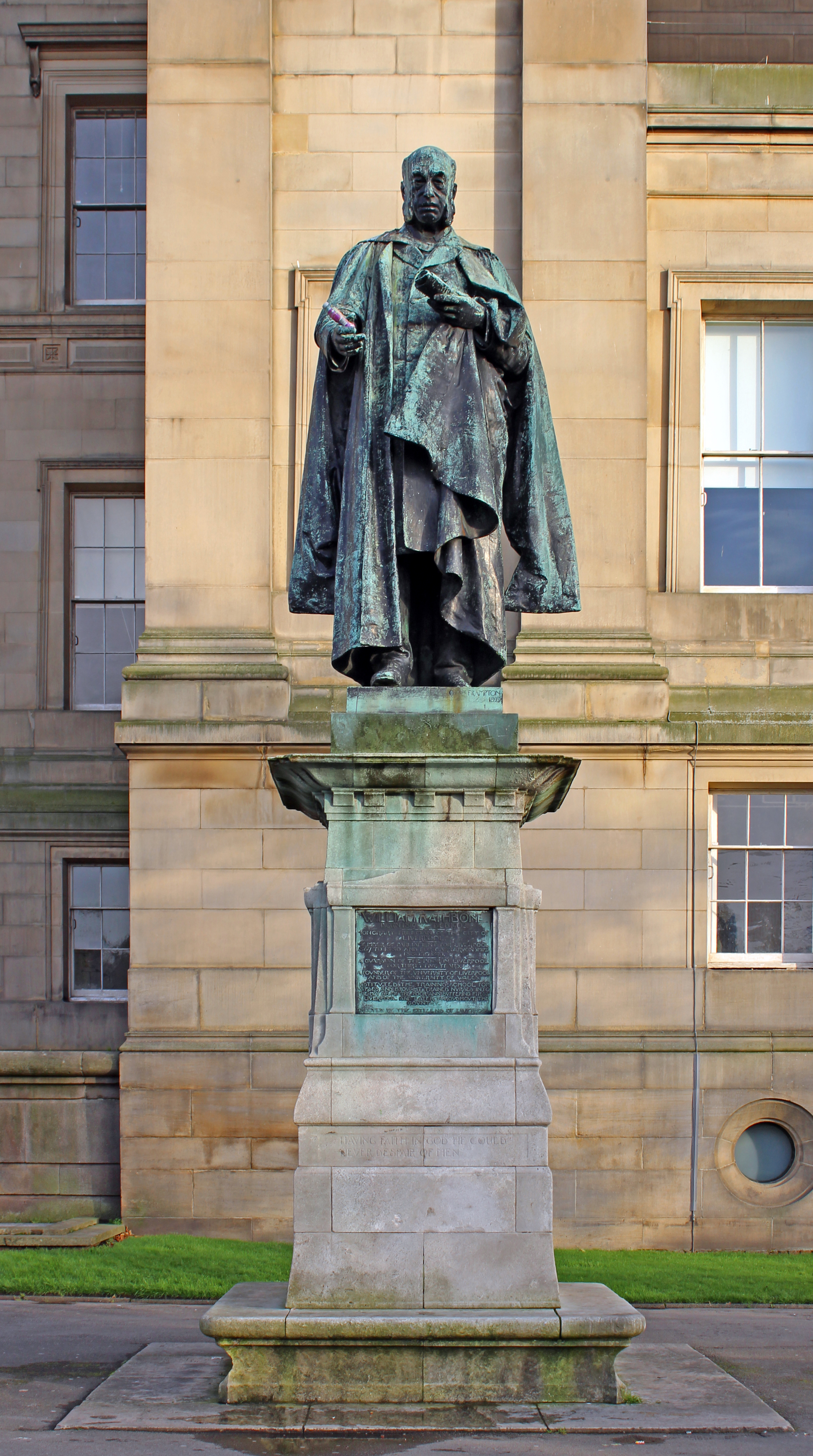 View with St George's Hall to rear.